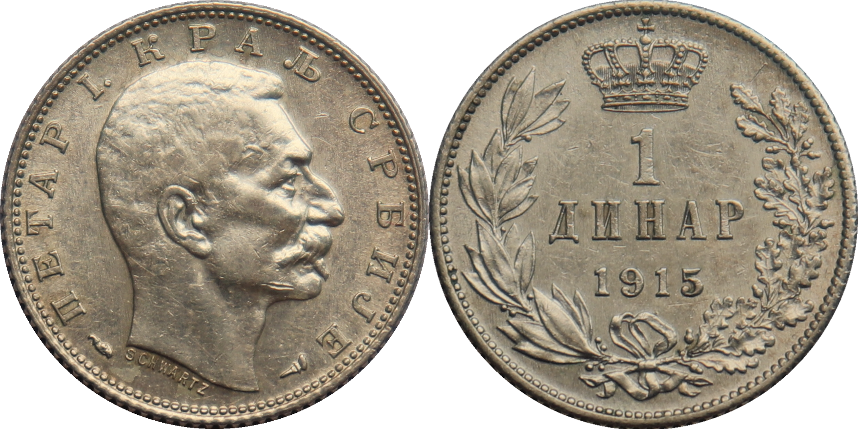 Serbian 1 dinar coin from 1915 (design first introduced in 1904)